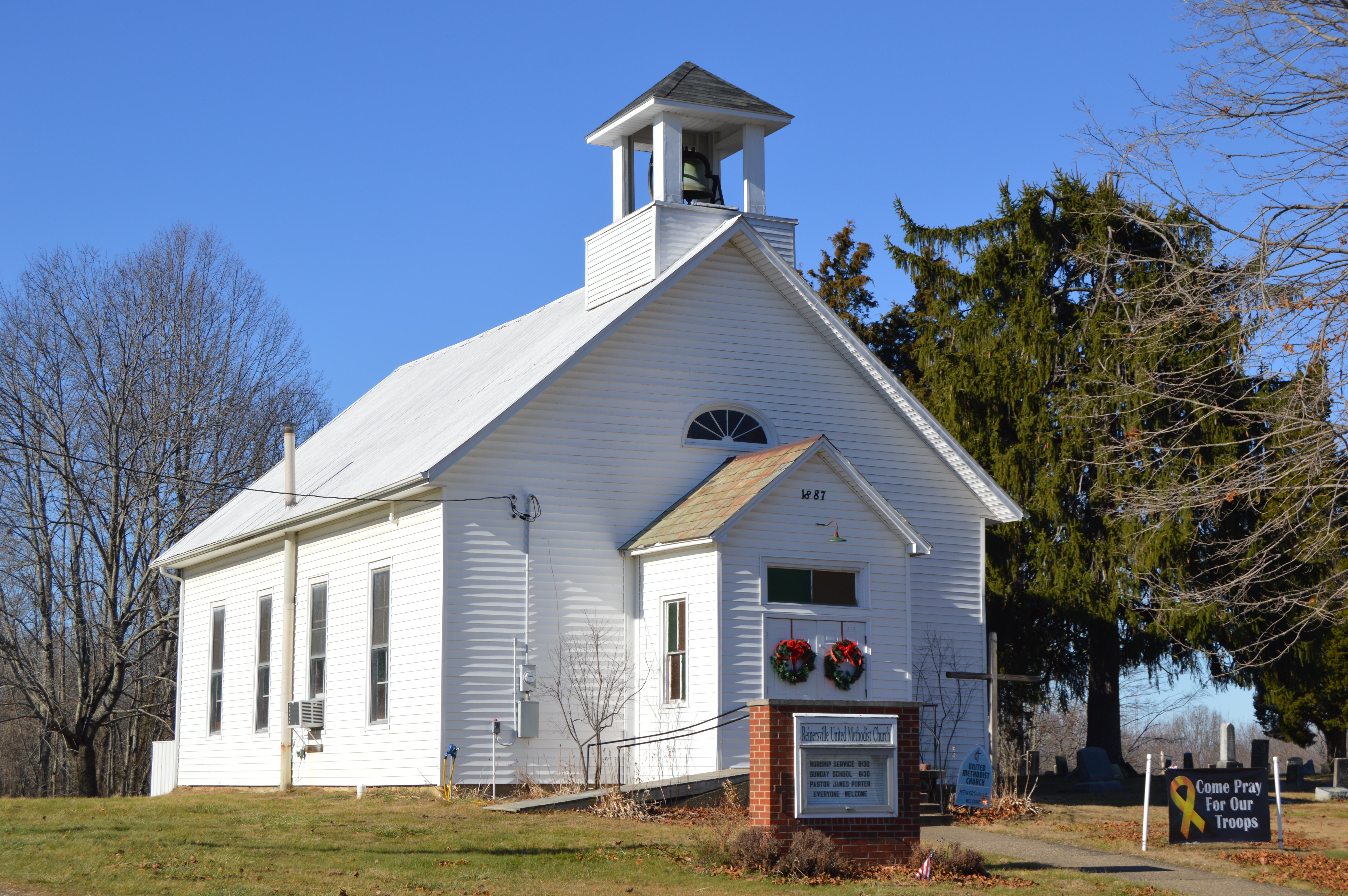 Front and southern side of Reinersville United Methodist Church, located at 6465 State Route 78 at Reinersville in Manchester Township, Morgan County, Ohio, United States.